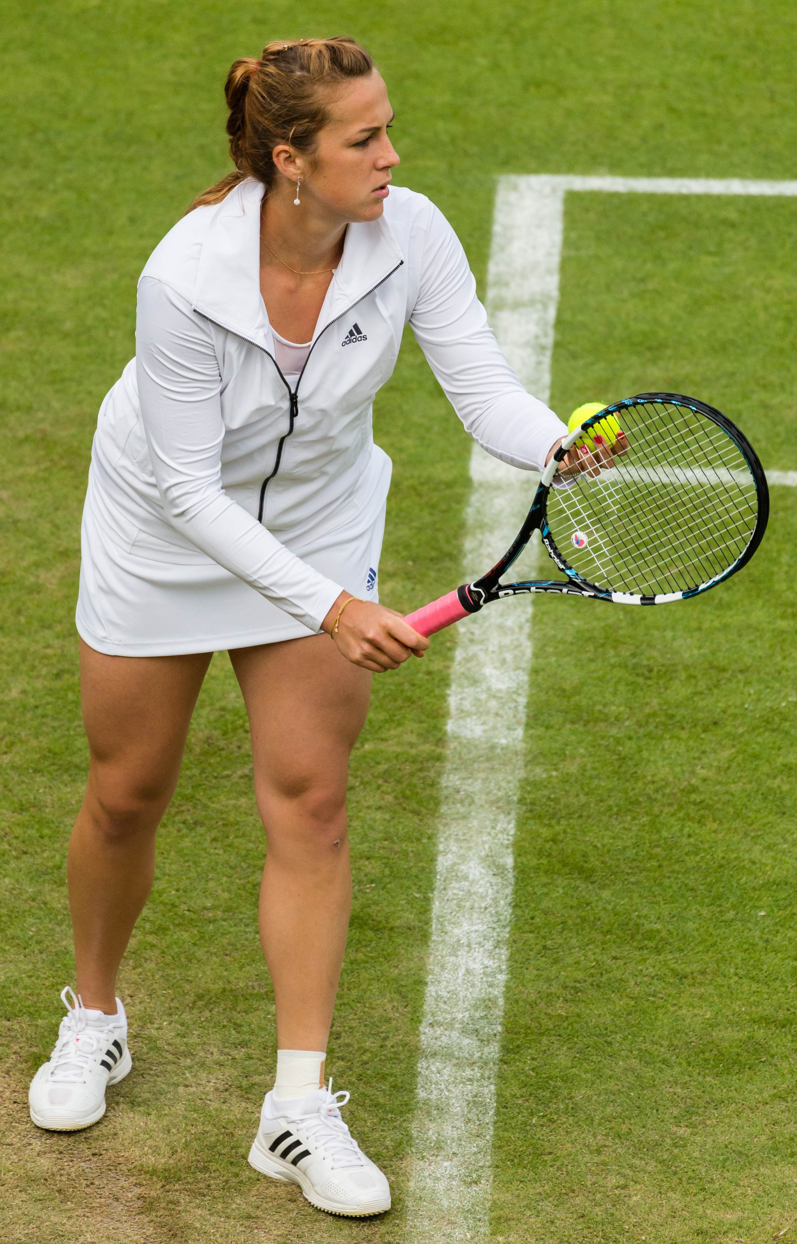 Anastasia Pavlyuchenkova in her first round match against Tsvetana Pironkova at Wimbledon in 2013.